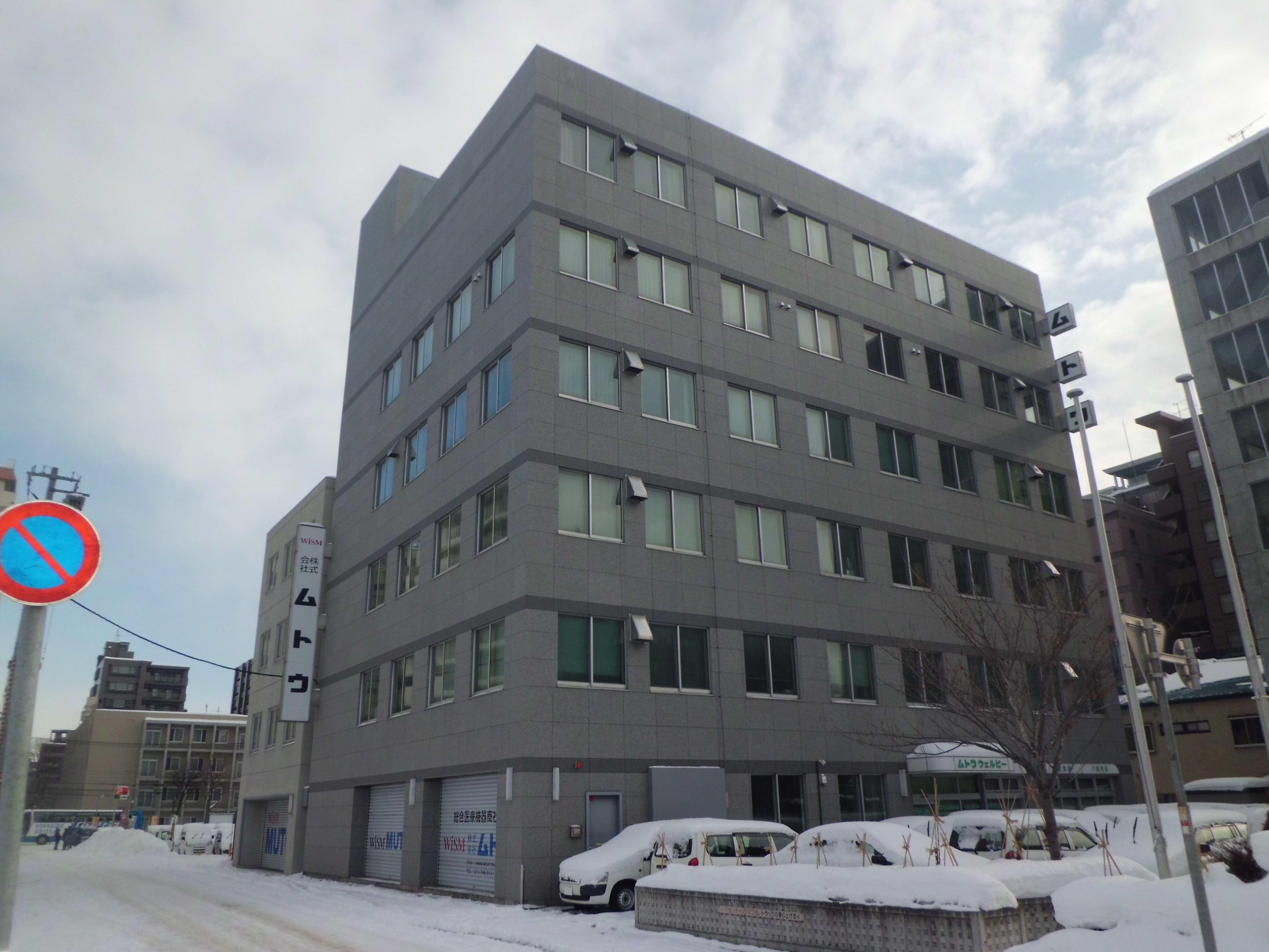 Main office of Mutou CO., LTD in Sapporo, Hokkaido, Japan.